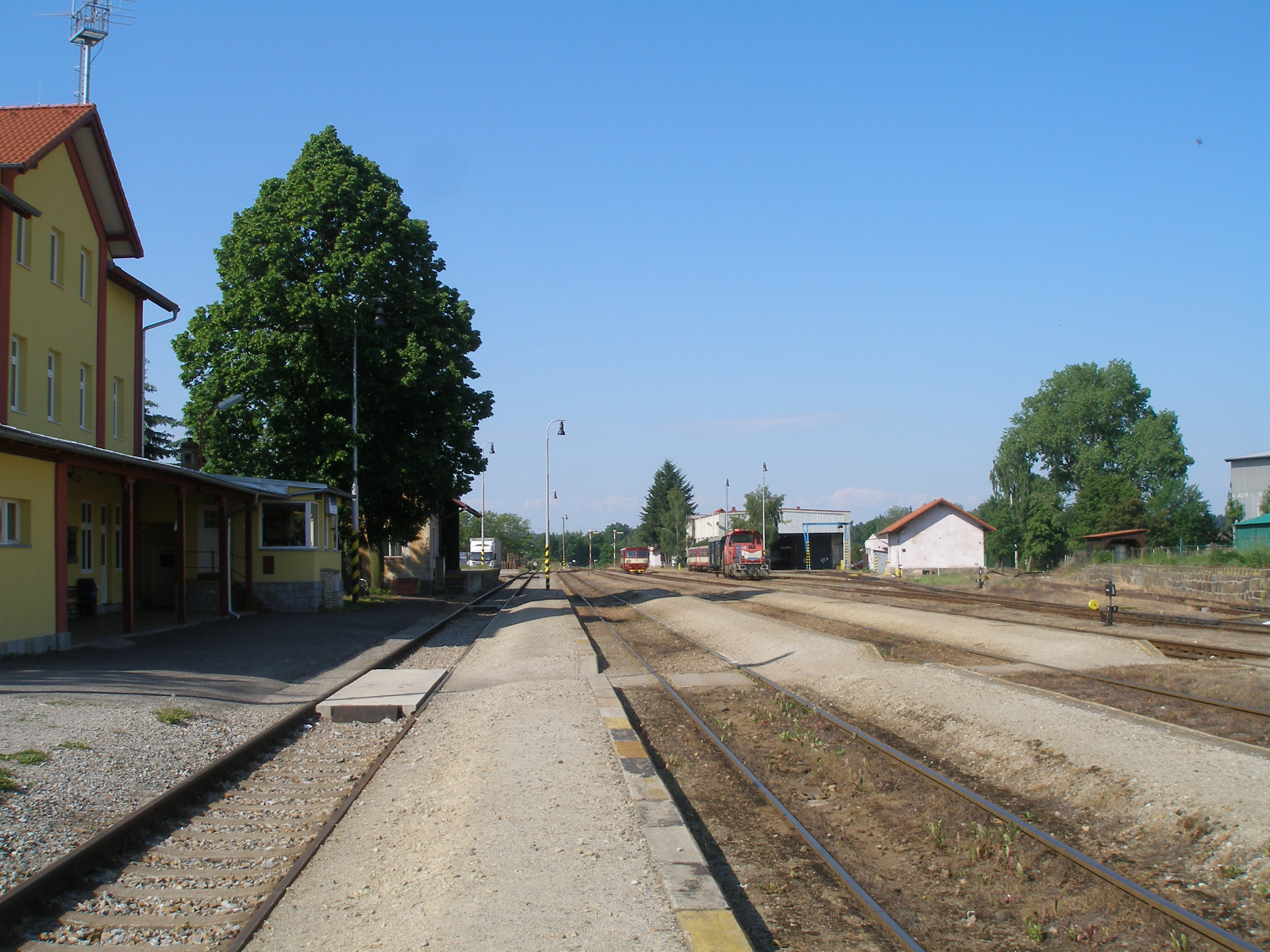 The railway station in Blatná